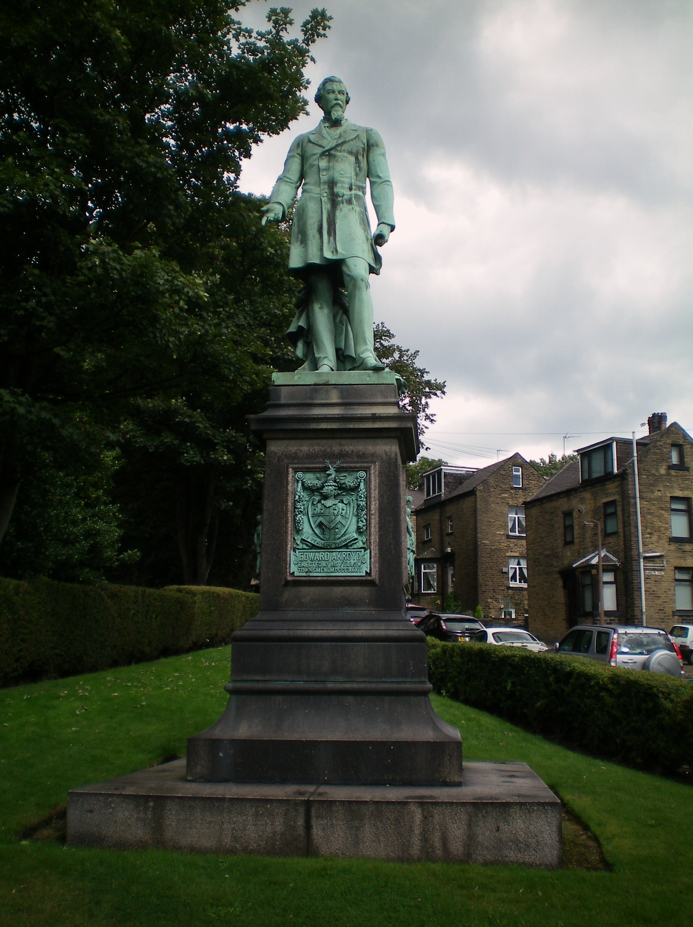 Statue of Sir Edward Ackroyd at All Souls Church, Haley Hill, Halifax, England.